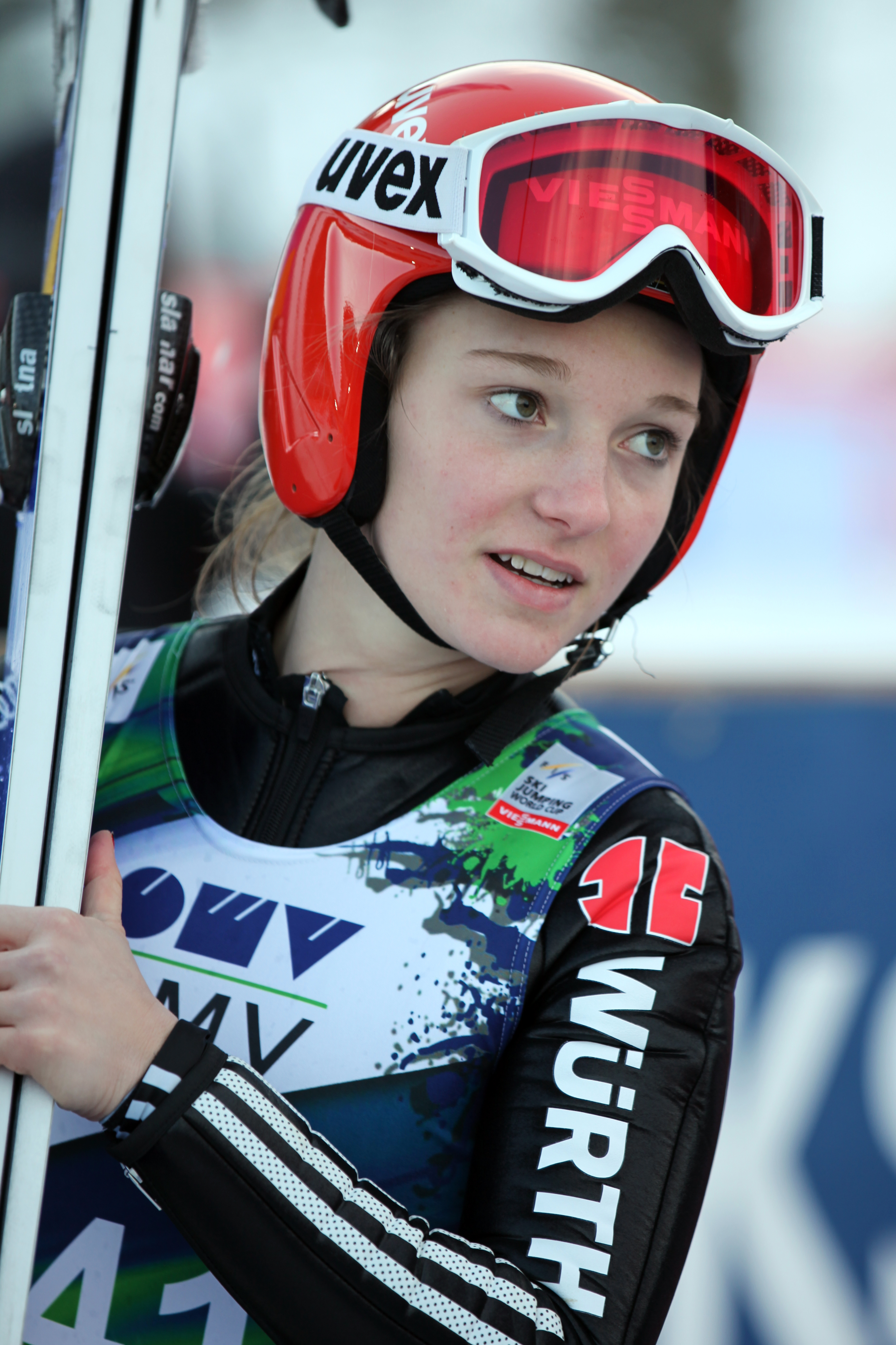 Katharina Althaus at the Ladies World Cup ski jumping event in Hinzenbach, Austria